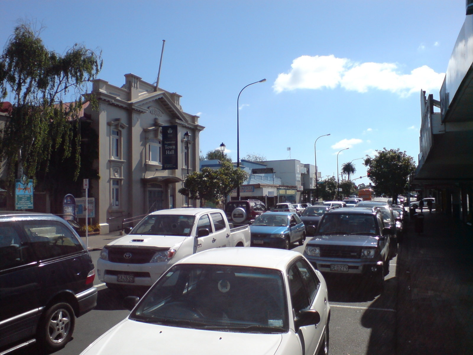 Papatoetoe, a suburb of Manukau City, New Zealand. And yes, the title IS ironic - New Zealand for most still hasen't gotten the fact that town centres are for PEOPLE, not cars.